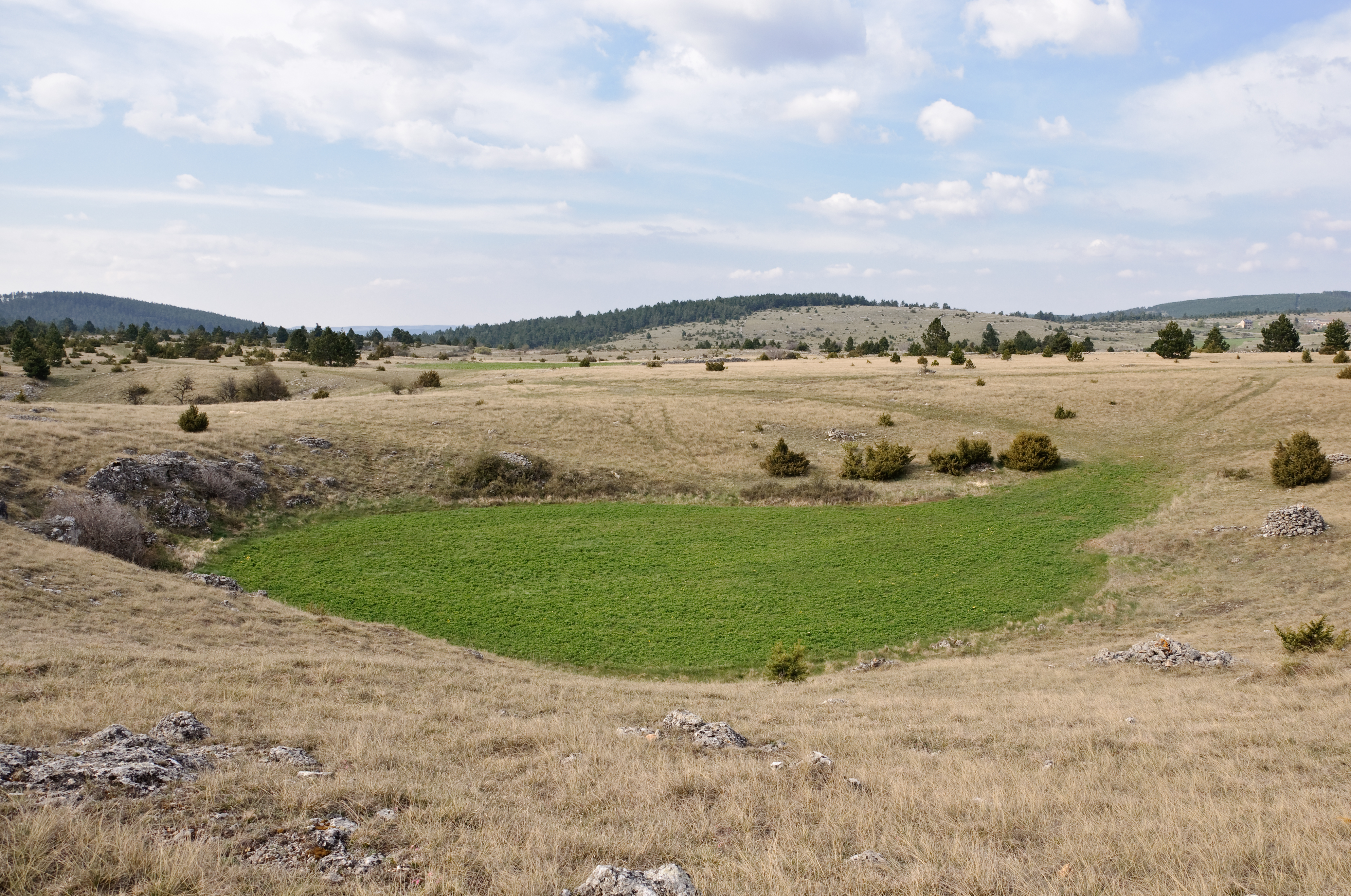 Sinkhole in the devez des Cheyrouses, Causse de Sauveterre, Lozère, France.